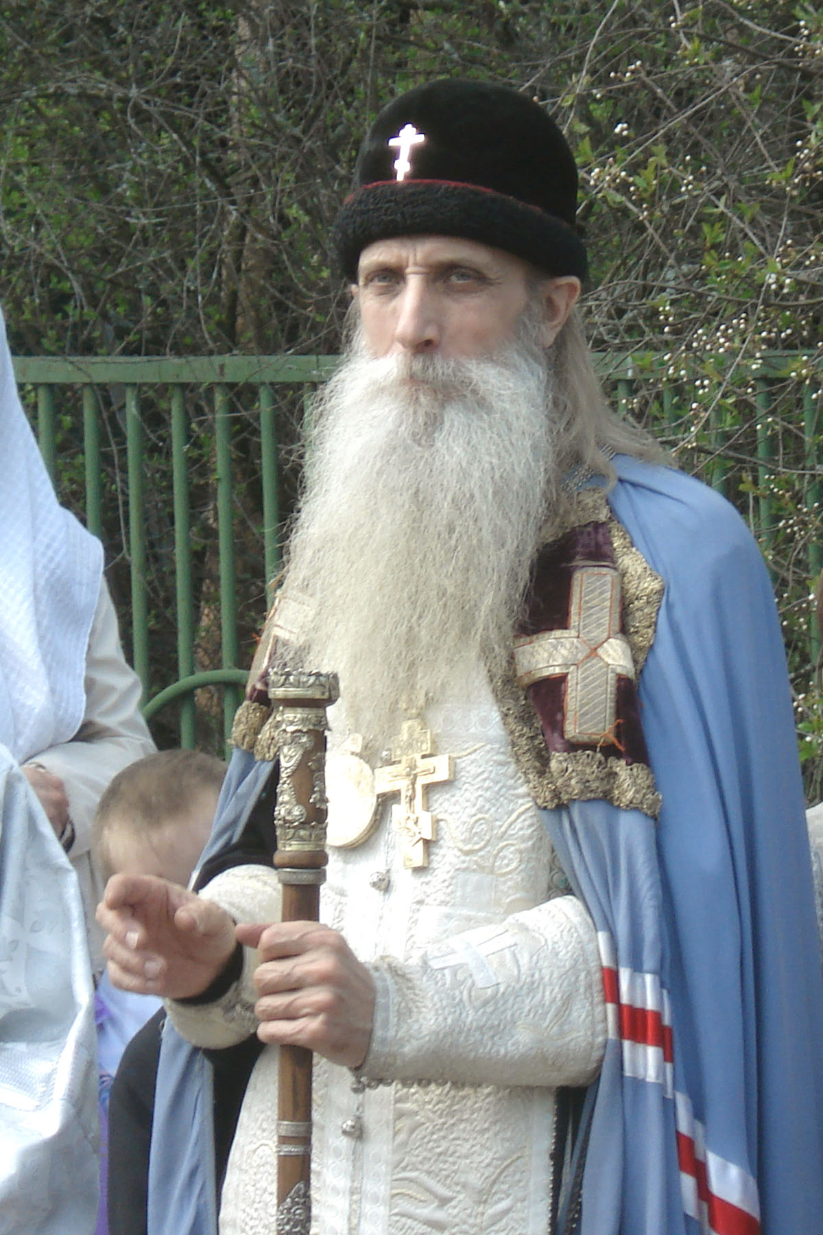 Kornily (Titov), Head of Russian Orthodox Old-Rite Church (Belokrinitskaya Hierarchy) / Преосвященнейший владыка Корнилий (РПСЦ)